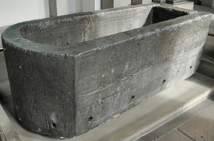 Saqqara, Sarcophagus of Nectanebo II (never used since he left it when he fled south), British Museum